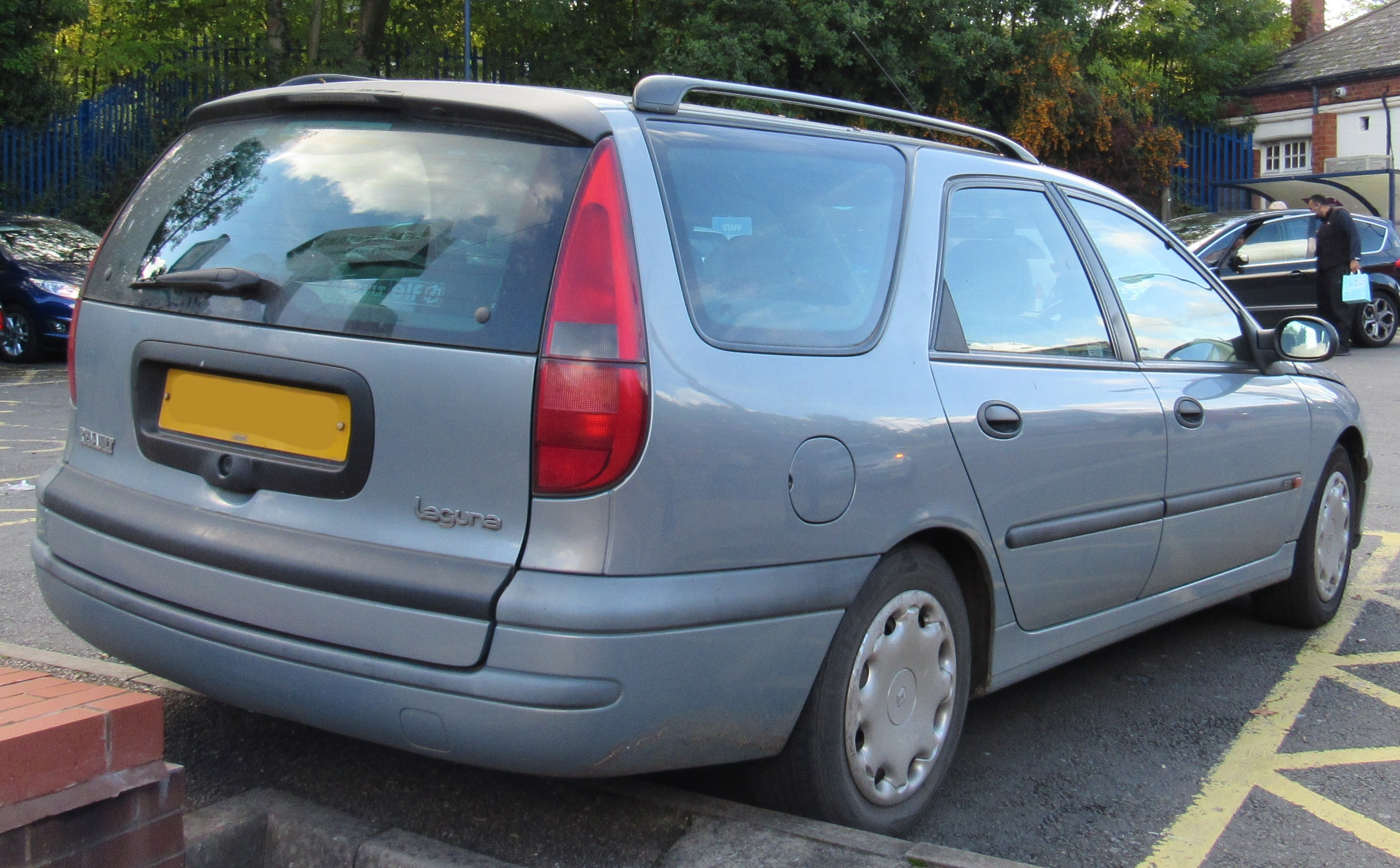 1998 Renault Laguna RT Sport Estate Automatic 2.0 Rear Taken in Solihull